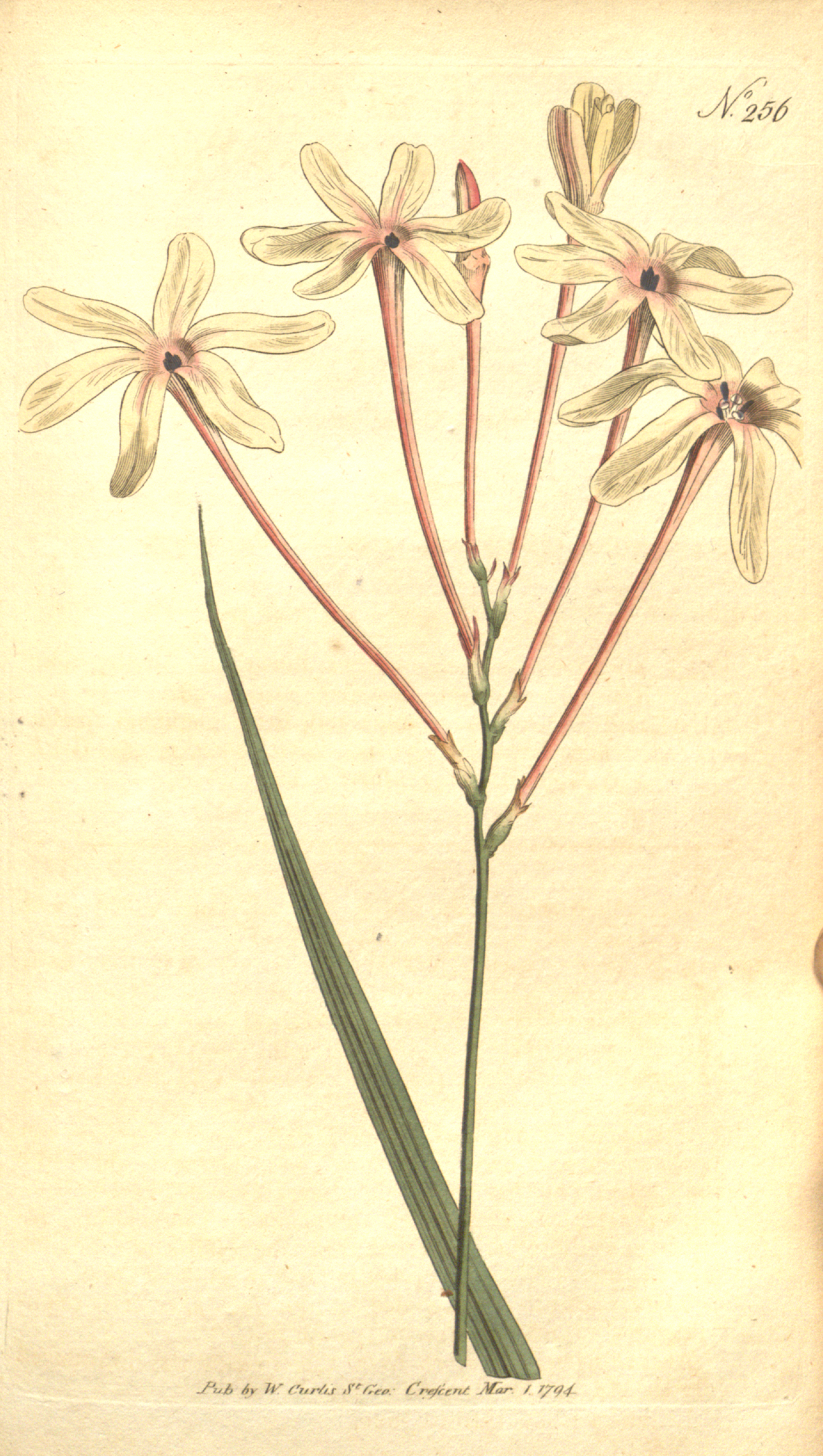 This is a plate from The Botanical Magazine, Volume 8.